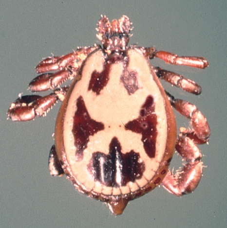 Rhipicephalus pulchellus ixodid ticks, female and male, dorsal.